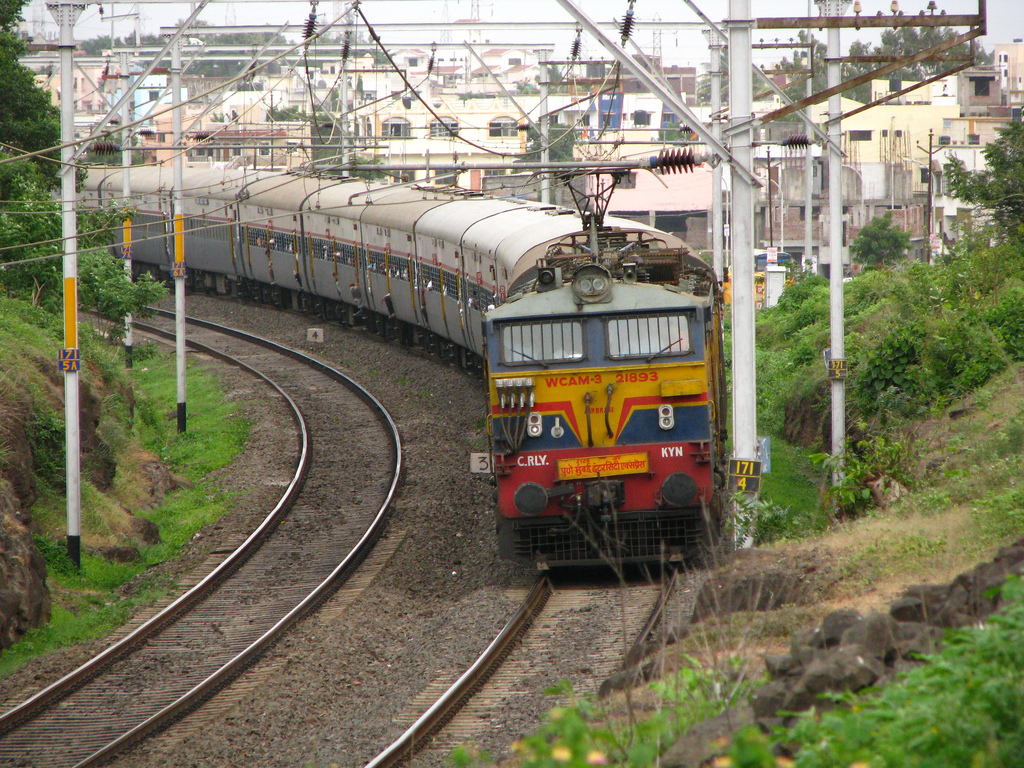 The ICE to Bombay negotiates a bend after Akurdi